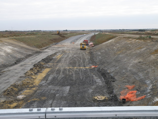 Road construction near Stangound The Stanground bypass/relief road passes to the south of the village. This is just one phase of a massive development which will ultimately join Stanground with Farcet, the next village.